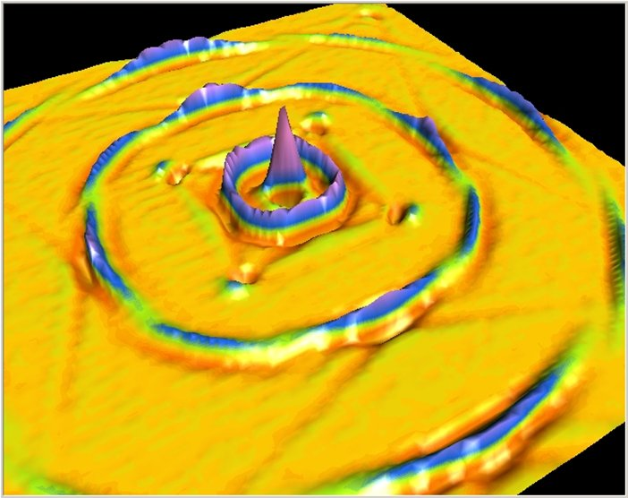 Image of surface acoustic waves on a crystal of tellurium oxide with (001) surface orientation, coated with a thin gold film of thickness 40 nm. Imaged created by the Applied Solid State Physics Laboratory, Division of Applied Physics, Graduate School of Engineering, Hokkaido University, Sapporo, Japan. Dec. 18, 2008 [1]